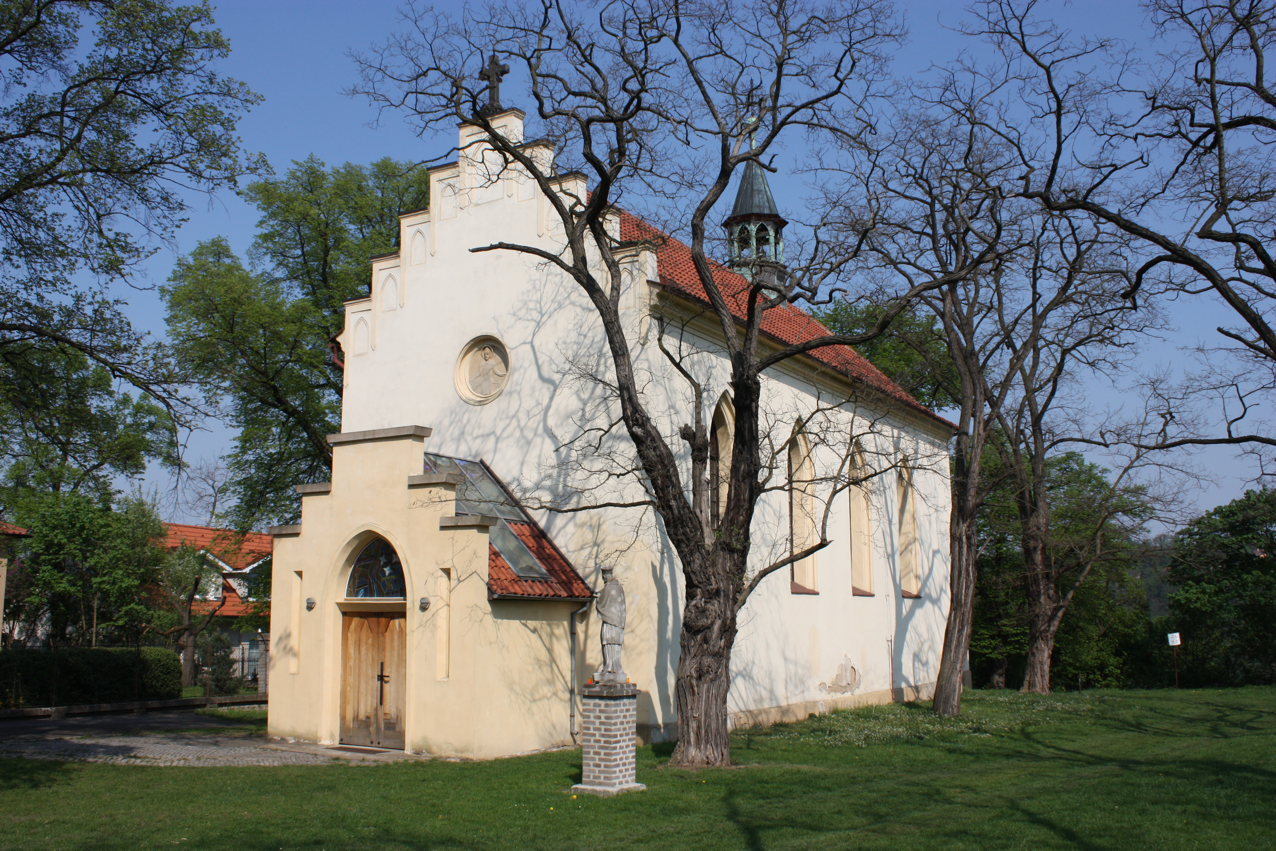 Church of Birth of St. John the Baptist in Roztoky.